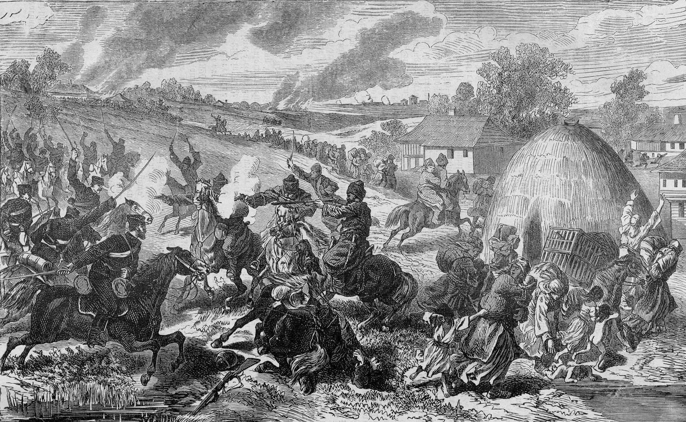 Serbian troops clashing with Ottoman Cherkessians during the war.